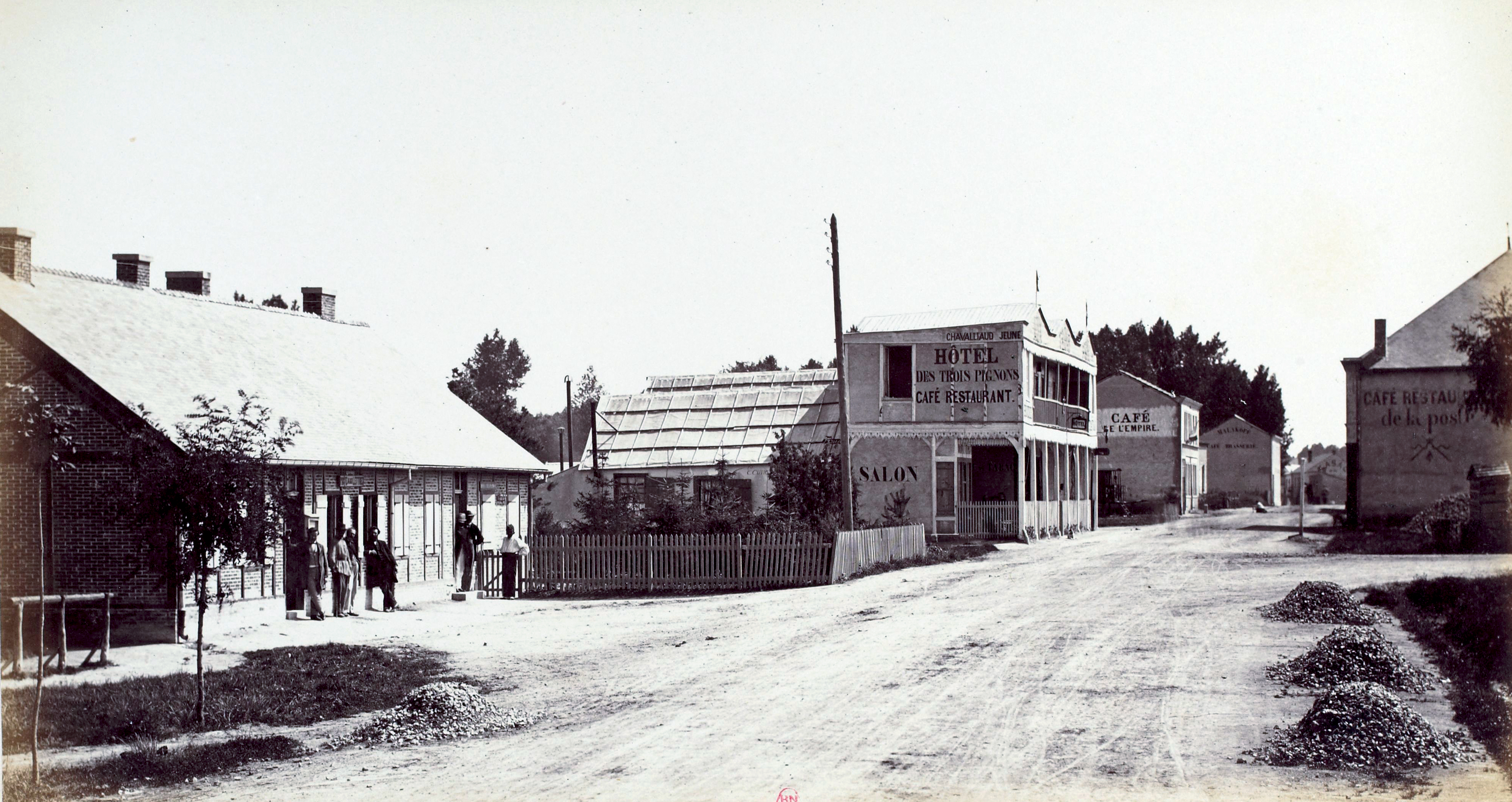 Photographie